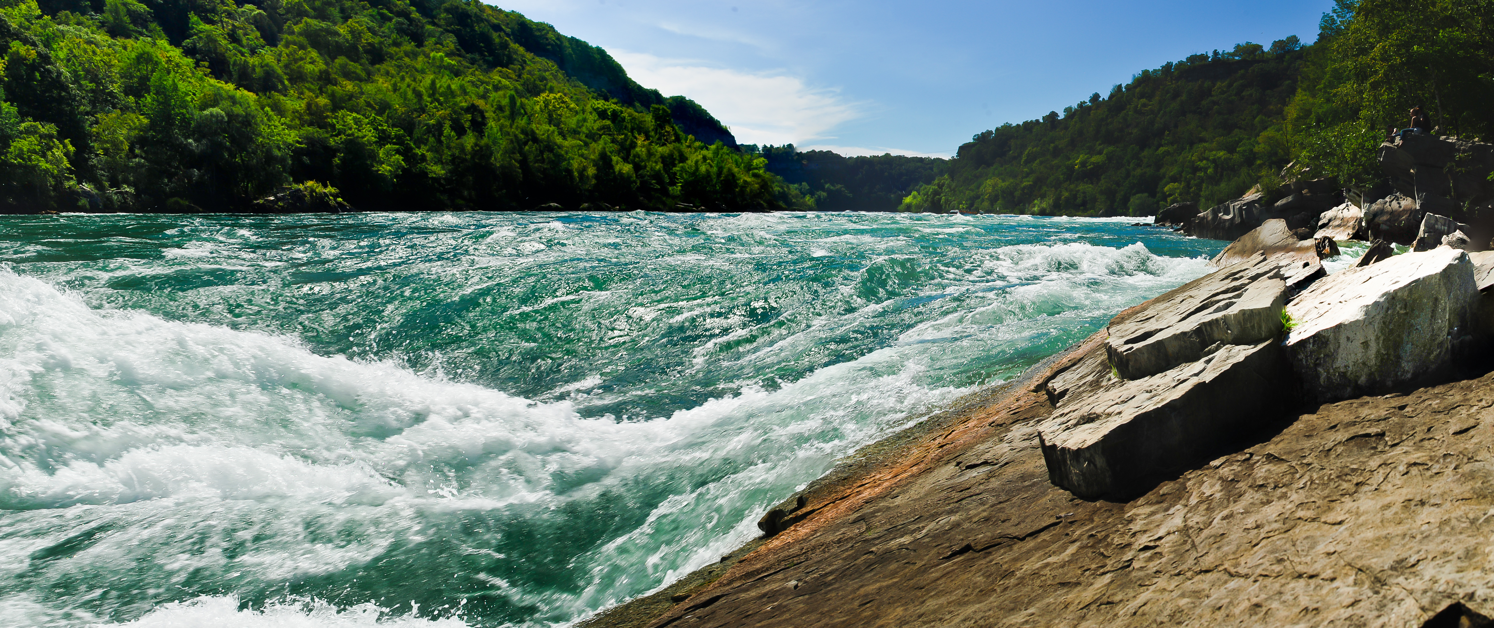 Niagara River from Niagara Glen Nature Reserve.